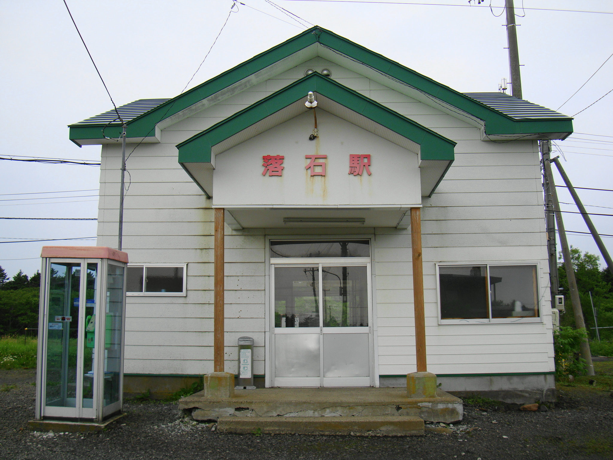 Ochiishi Station